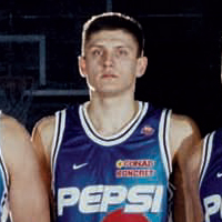 Photo taken and released on Wikimedia directly by the basketball club.